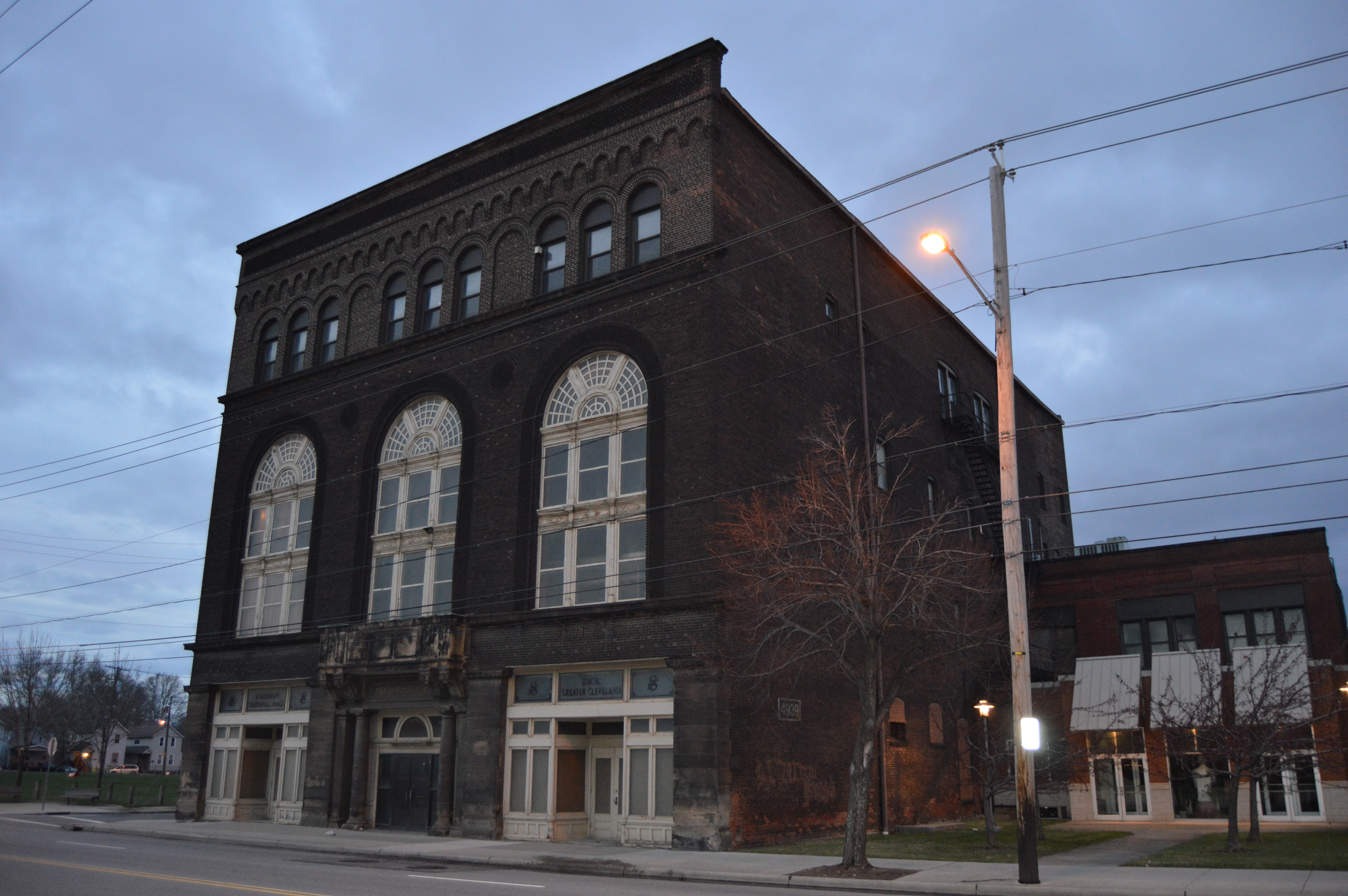 Front and southern side of the Bohemian National Hall, located at 4939 Broadway (State Routes 14/43) in Cleveland, Ohio, United States. Built in 1897, it is listed on the National Register of Historic Places.